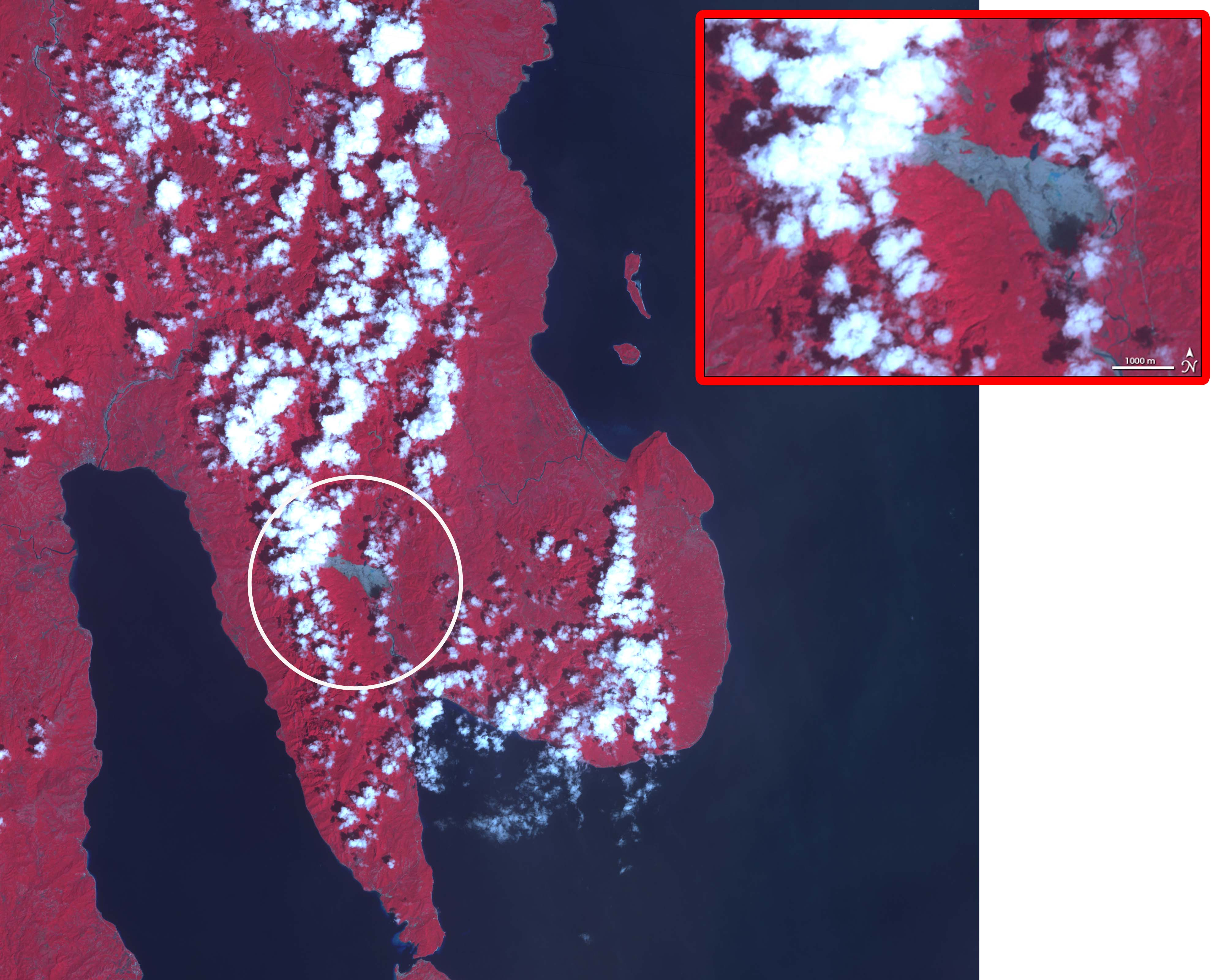 Original Caption: Advanced Spaceborne Thermal Emission and Reflection Radiometer (ASTER) on NASA’s Terra satellite with this view of the landslide that buried a town. Nearly 1,000 people died in the town of Guinsaugon when heavy rains triggered the landslide on February 17. In this false-color image, the landslide is pallid gray against the vibrant red of the surrounding vegetation. Pools of pale aquamarine water on top of the mud reveal ongoing flooding. According to a Reuters news report, rescue efforts had to be suspended a few days before this image was taken because ongoing rain threatened further floods. This image also shows a dark blue lake above the landslide. This feature may have been present before the slide, or it may be a temporary lake created when the slide dammed a south-flowing waterway.